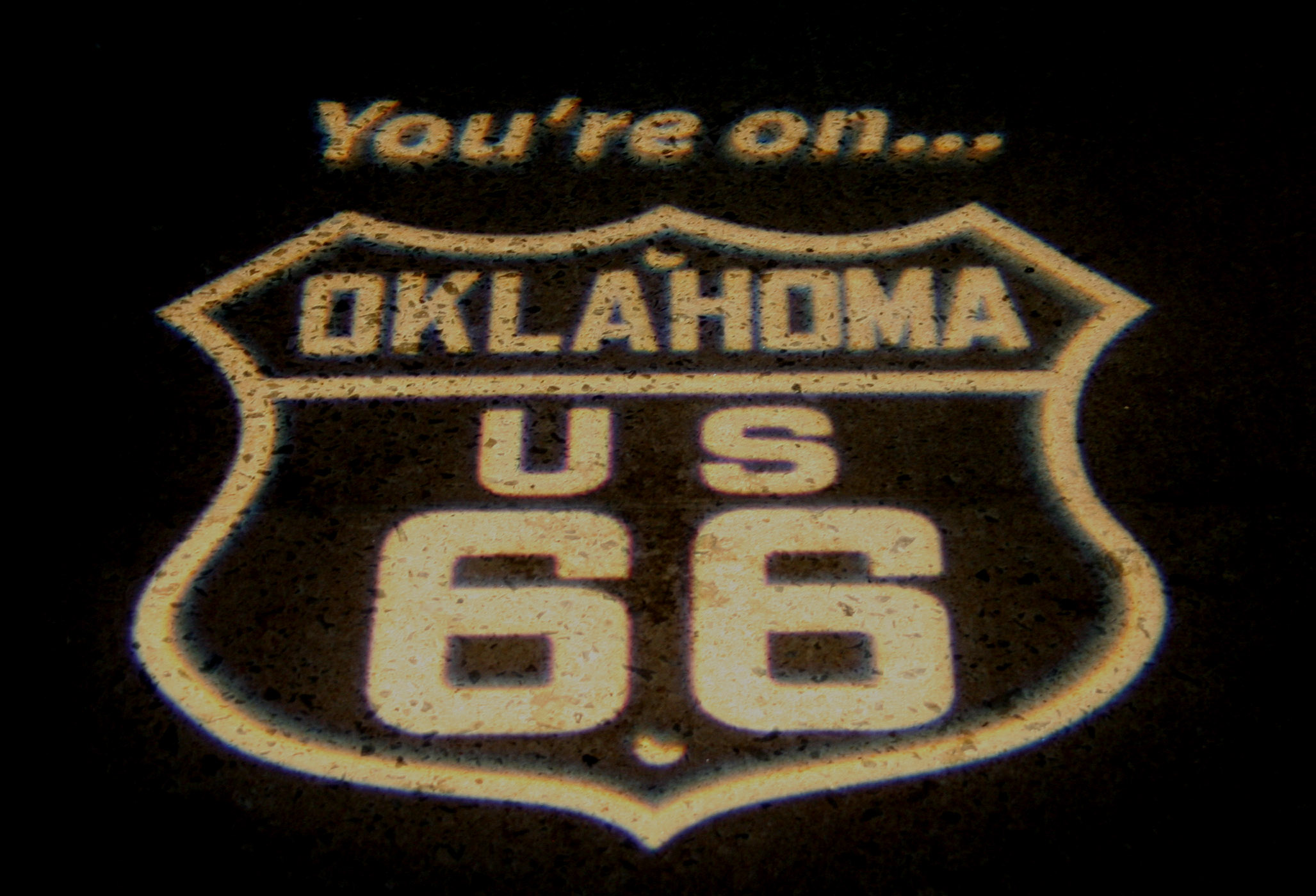 U.S. Route 66, (also known as Route 66 or The Will Rogers Highway) was a highway in the U.S. Highway system.